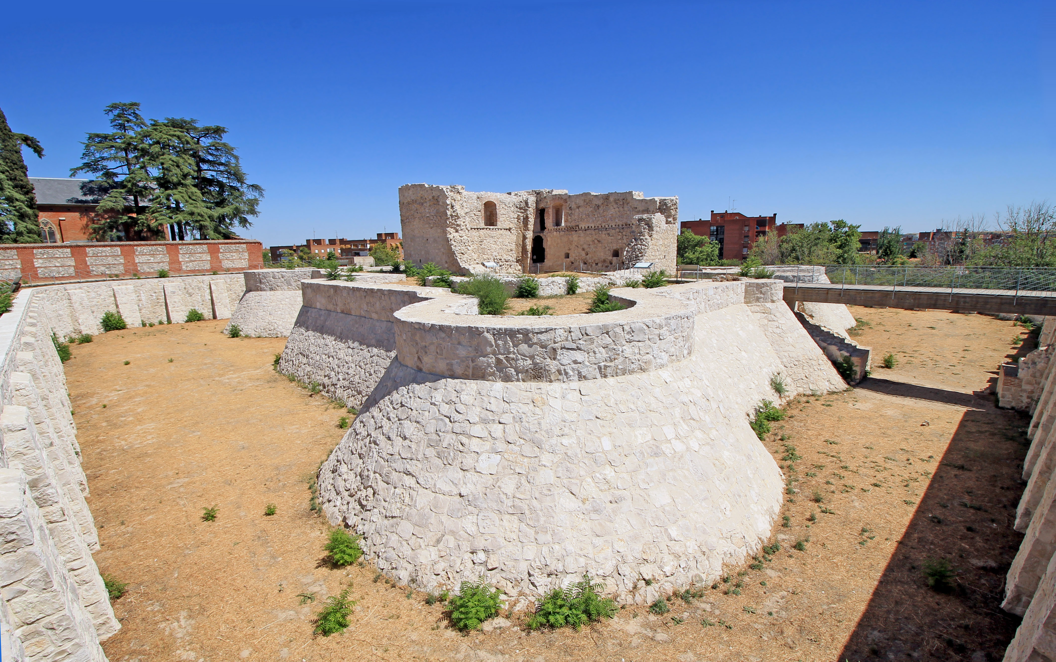 View of La Alameda Castle in Madrid (Spain).